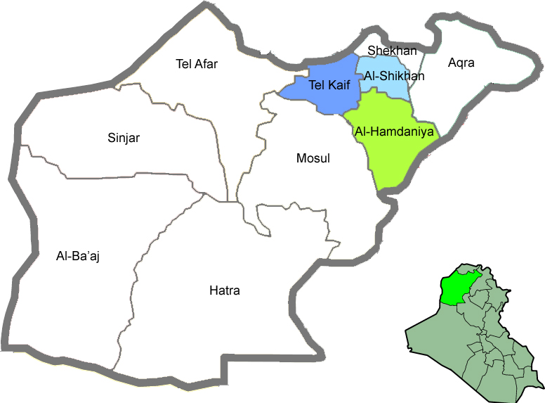 Nineveh plains, Iraq